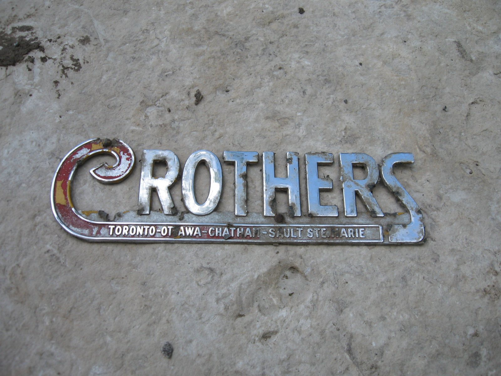 Name plate for a Crothers Caterpillar vehicle, found in Crothers' Woods, May 2008